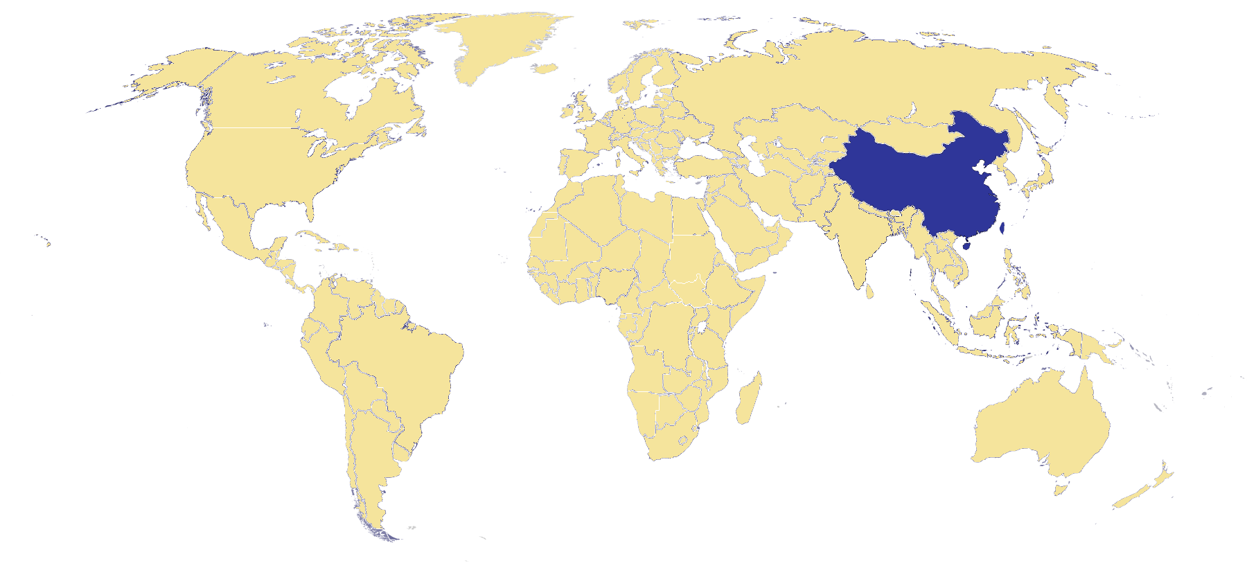 This map shows, in blue color, the countries where the Chinese Wikipedia is the most popular language version of Wikipedia. The information has been sourced from here